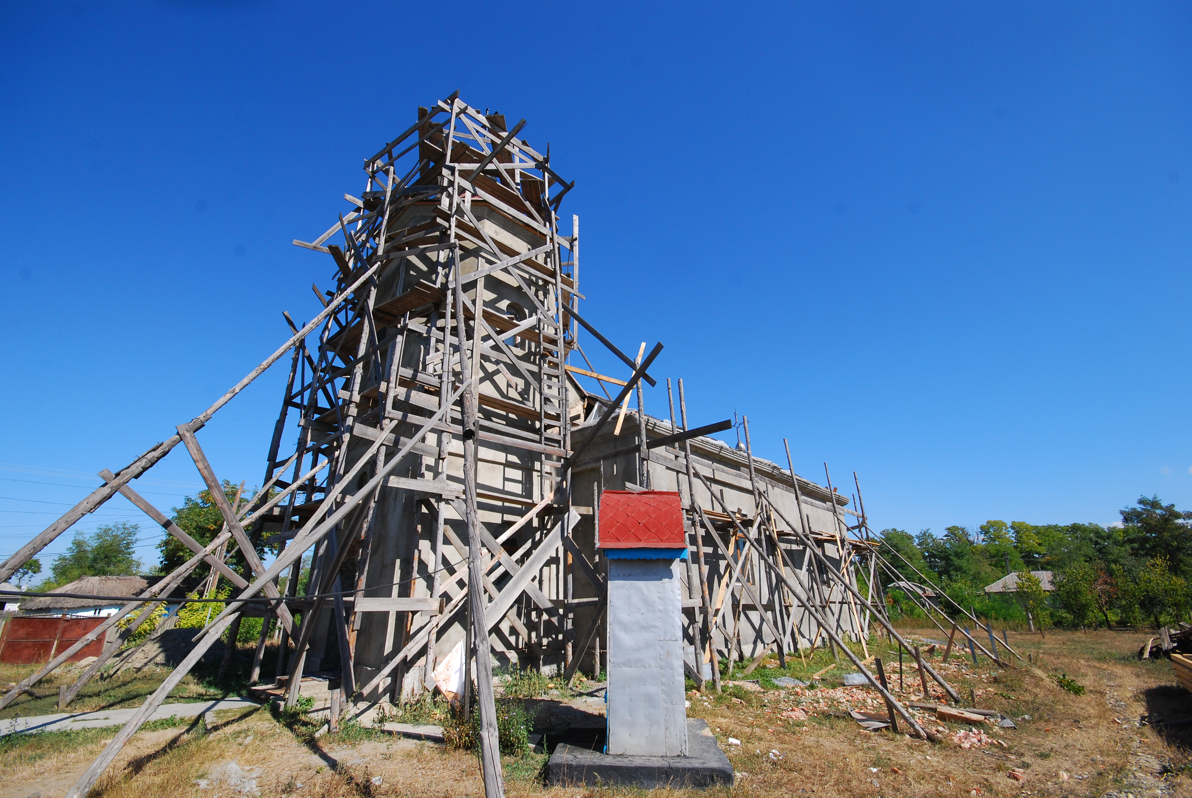 Saint Nicolas Church of Bosia